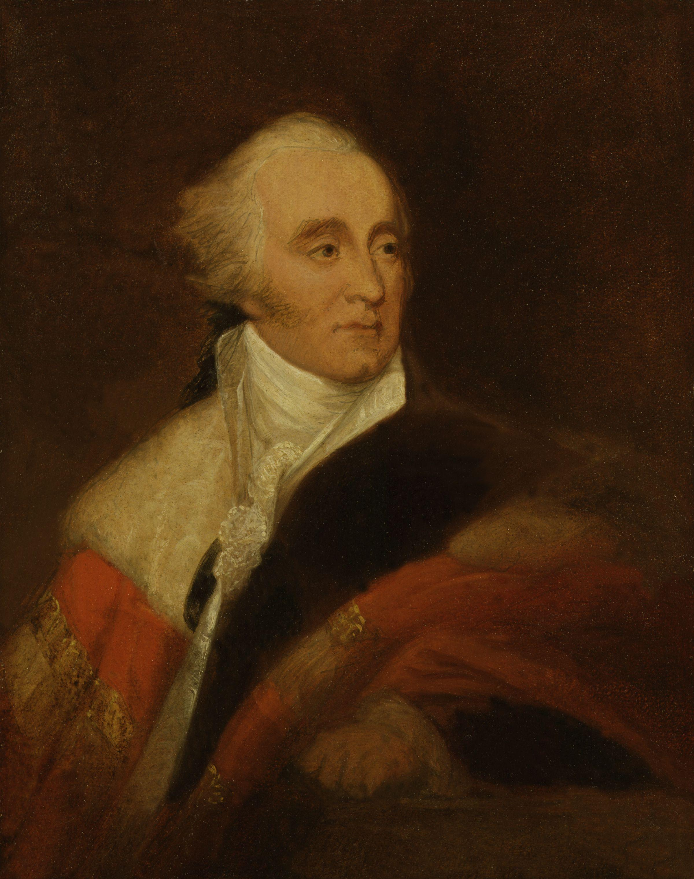 given to the National Portrait Gallery, London in 1890. All images in this batch have been confirmed as author died before 1939 according to the official death date listed by the NPG.